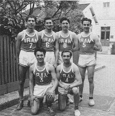 Iran Basketball Team in Olympic 1948 in Lindon.